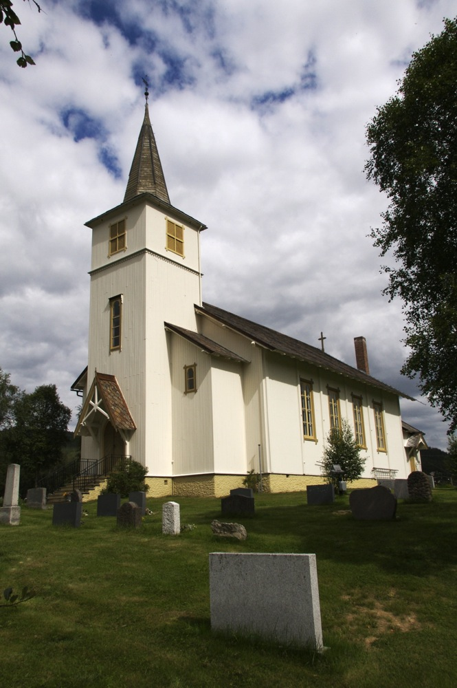 Folldal Church in Hedmark, Norway